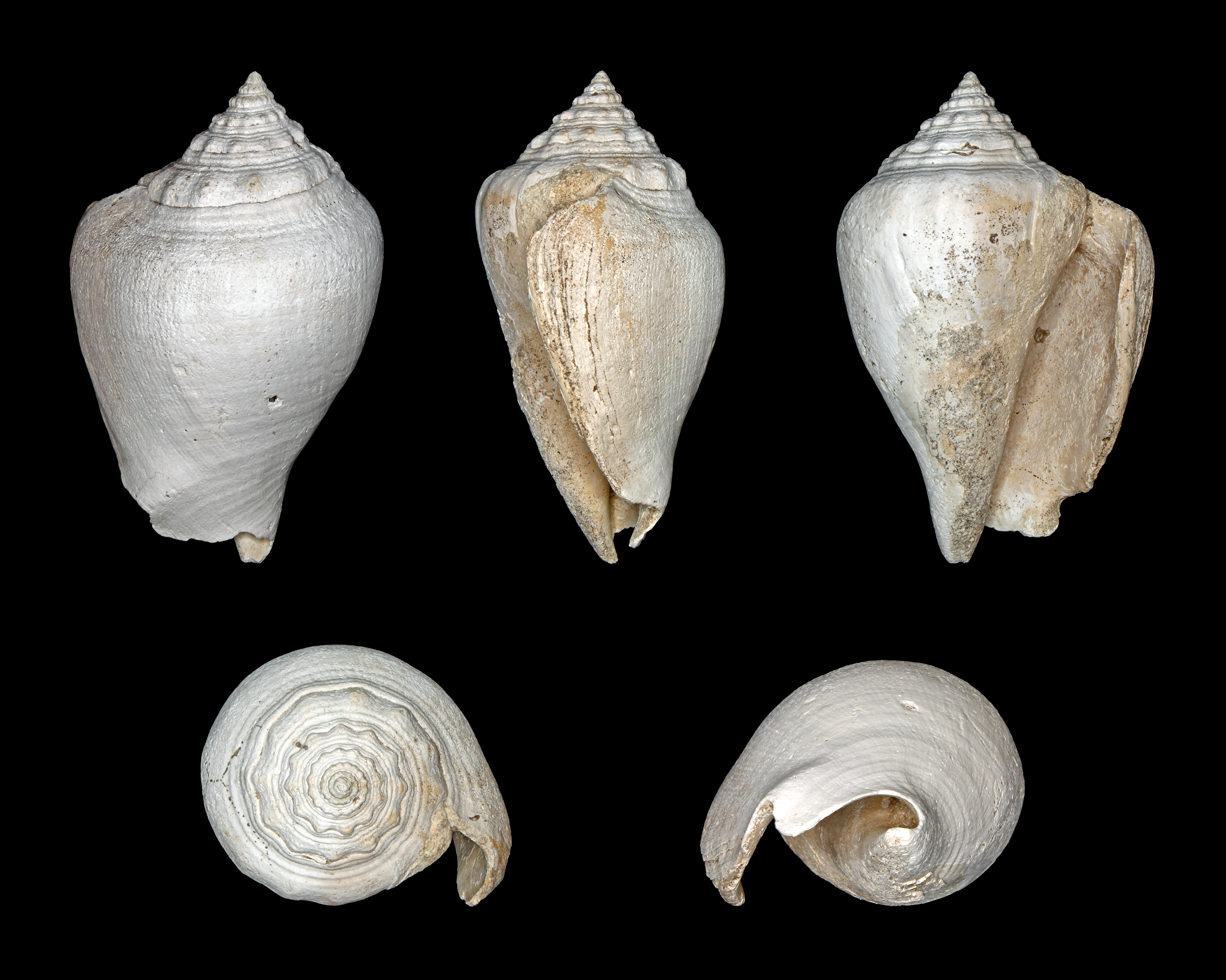 Florida Fighting Conch; Length 7.5 cm; Caloosahatchee Formation (Pliocene, Neogene, Tertiary), Sarasota, Florida, USA; Shell of own collection, therefore not geocoded. Dorsal, lateral (right side), ventral, back, and front view.